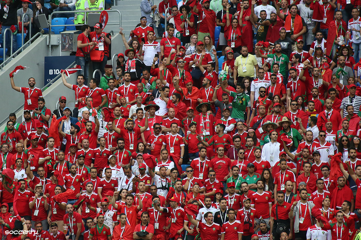 Iran-Morocco match, 2018 FIFA World Cup